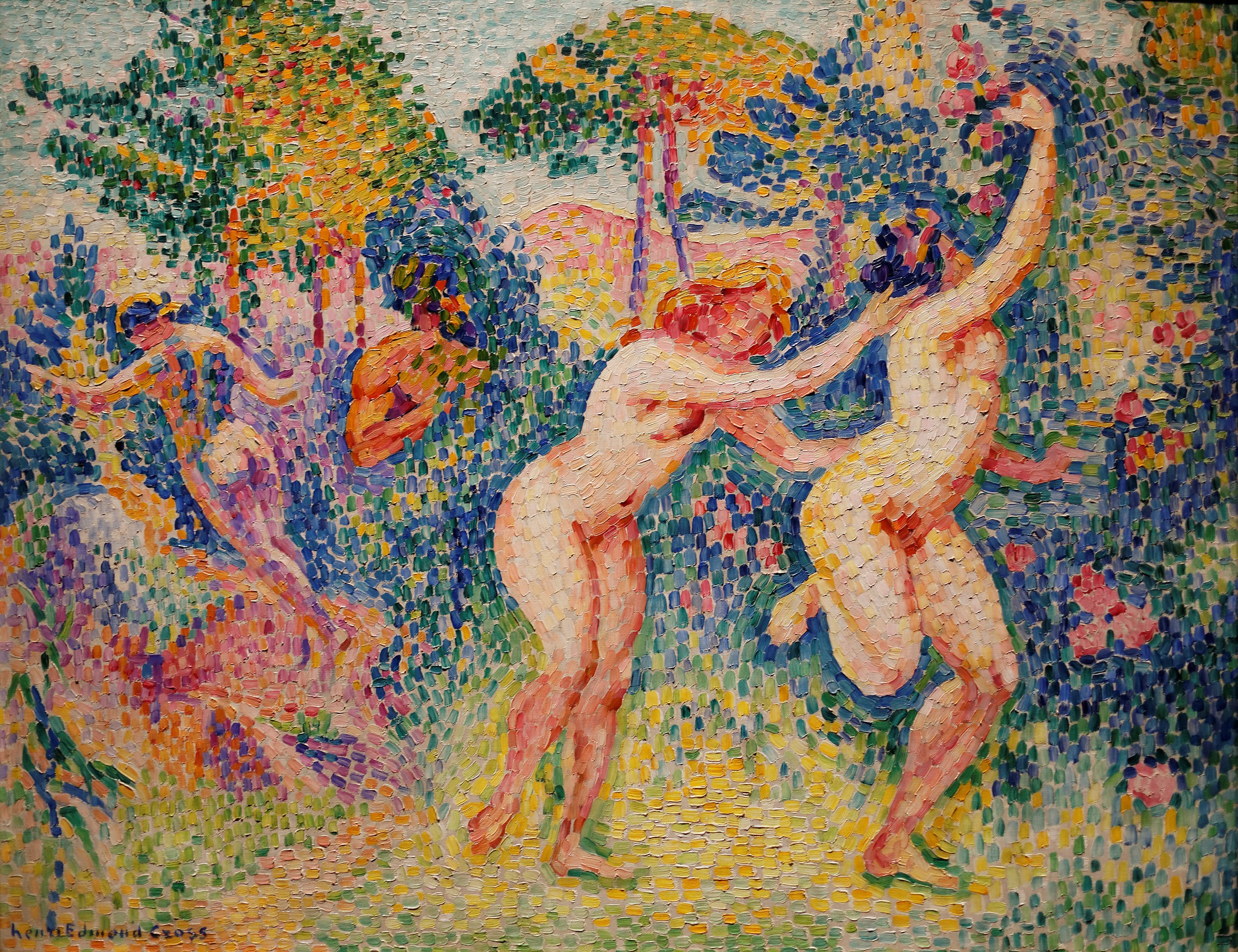 Giclée print depicting two running nymphs.